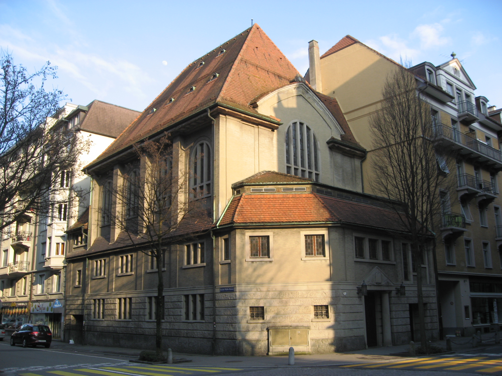 Synagogue of Lucerne at Bruchstrasse 51